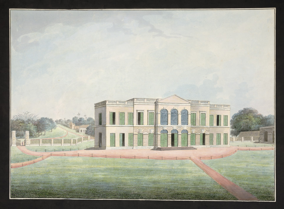 Artist: Anonymous Medium: Watercolour Date: 1795 Watercolour of the rear view of the East India Company's Factory at Cossimbazar in West Bengal by an anonymous artist working in the Murshidabad style, part of the Hyde Collection, c.1790-1800. Inscribed on back in ink: 'North view of the Cossimbuzar Factory House.'. Cossimbazar was the chief overseas port in Bengal from the 16th to the 18th centuries and as a result, all the different European nations who traded with India had a factory in the town. By the close of the 17th century the English factory, depicted in this drawing, was a highly profitable enterprise. The factory owed much of its wealth to its location, near Murshidabad, and to the efficiency of the Commercial Agent and Chief who ran the factory. Its position as chief overseas port in Bengal was surpassed by Calcutta at the end of the 18th century and the town began to decline.